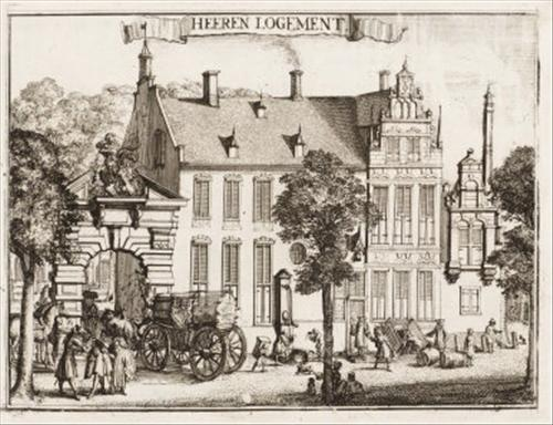 Proveniershuis, Haarlem, The Netherlands in 1688. Etching by Romeyn de Hooghe as part of the border of his 1688 map of Haarlem